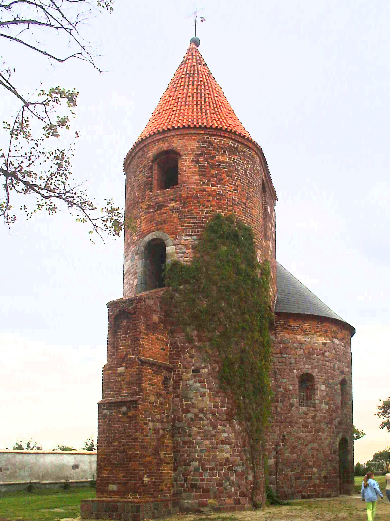 St.-Prokop's-Church in Strzelno, Poland